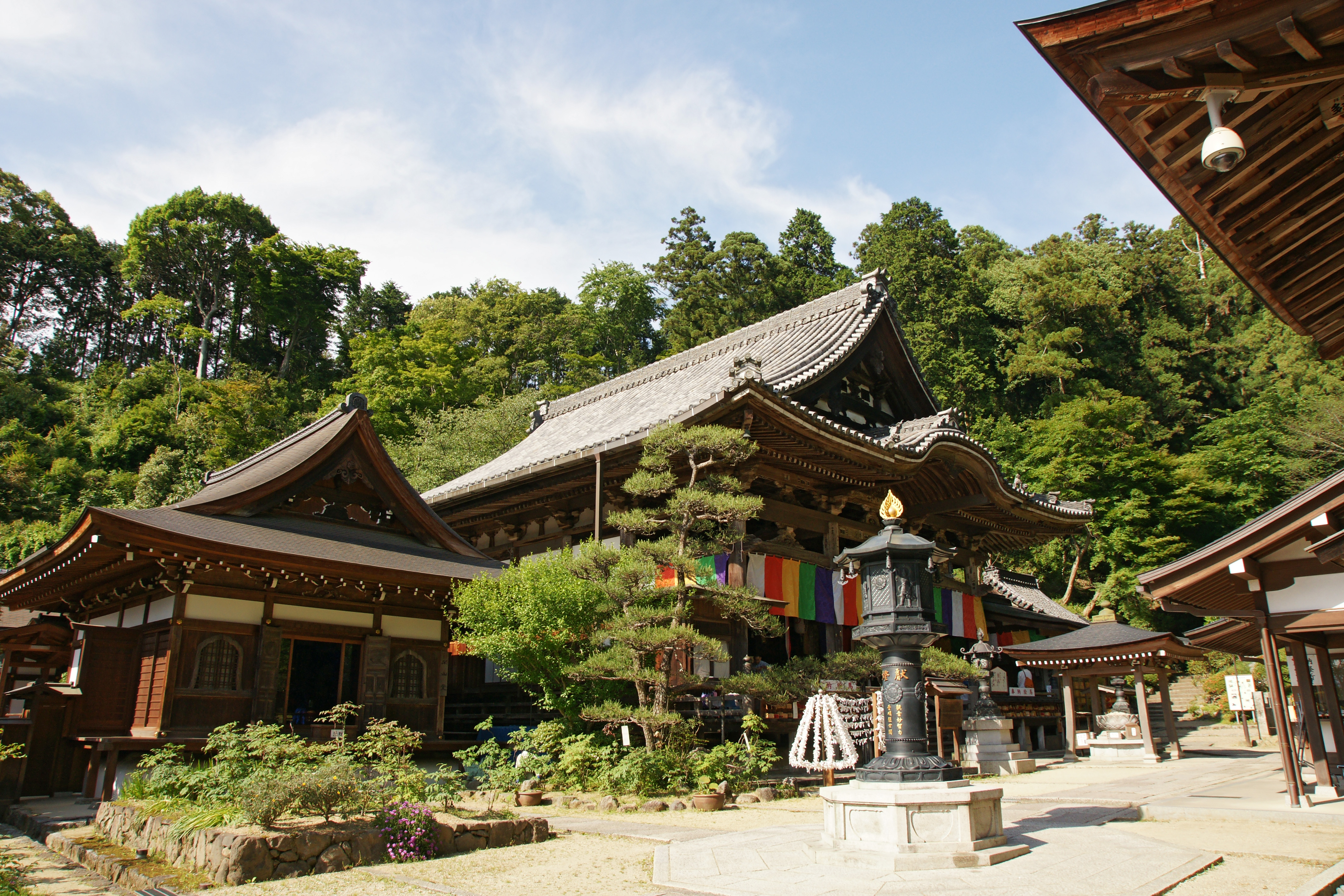 Okadera in Asuka, Nara Prefecture, Japan.